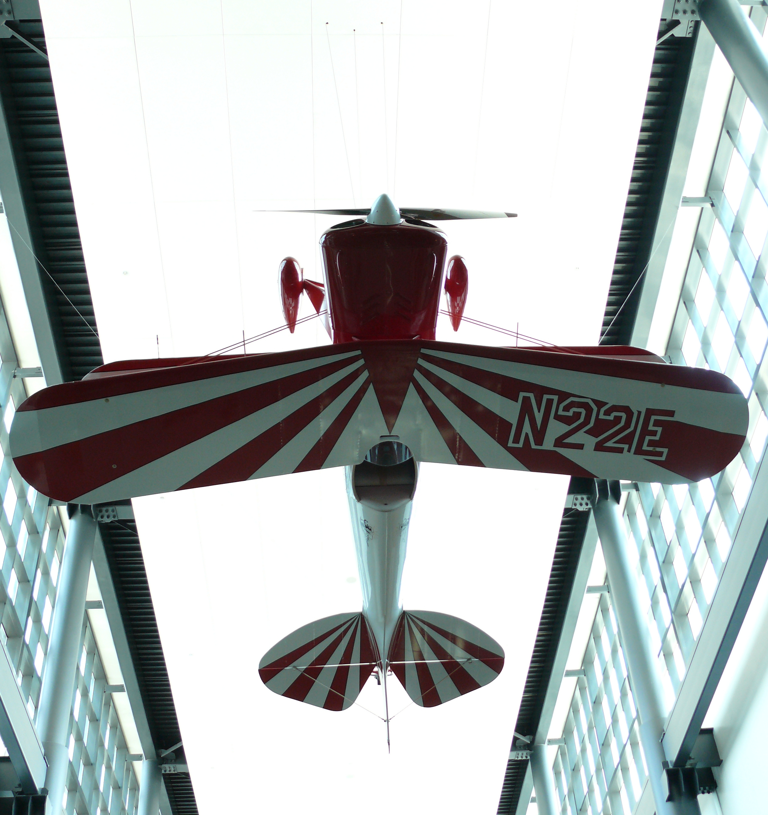 The oldest surviving Pitts Special S-1C, Little Stinker, in the Steven F. Udvar-Hazy Center, Chantilly, VA near Washington DC.